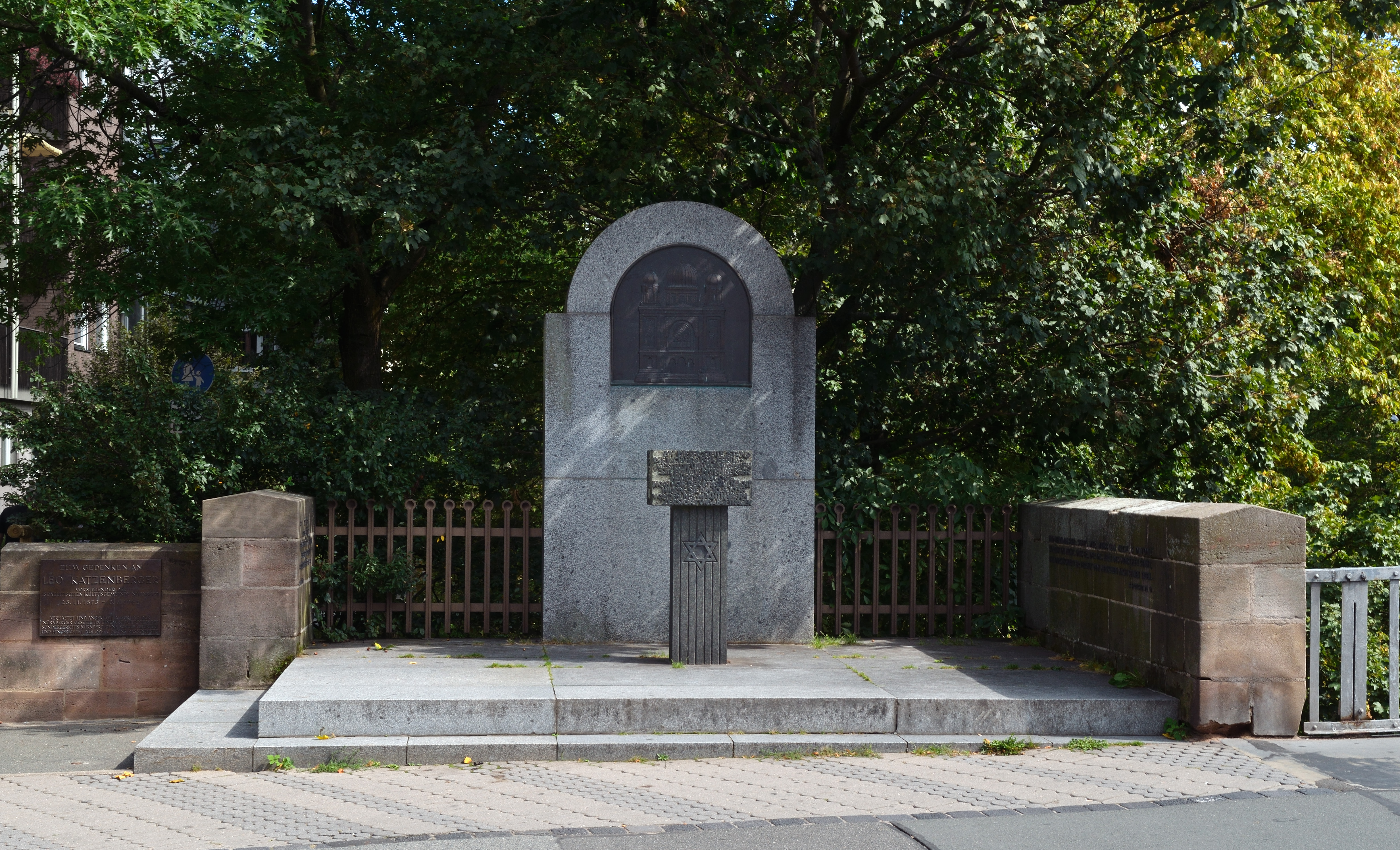 Monument for a synagogue in Nuremberg, Germany.